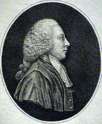 Portrait of The Rt. Hon. Charles Yorke (1722-1770), misidentified with Du Pre Alexander, 2nd Earl of Caledon (1777-1839))